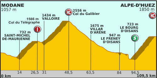 Profil of the 19th stage of the Tour de France 2011